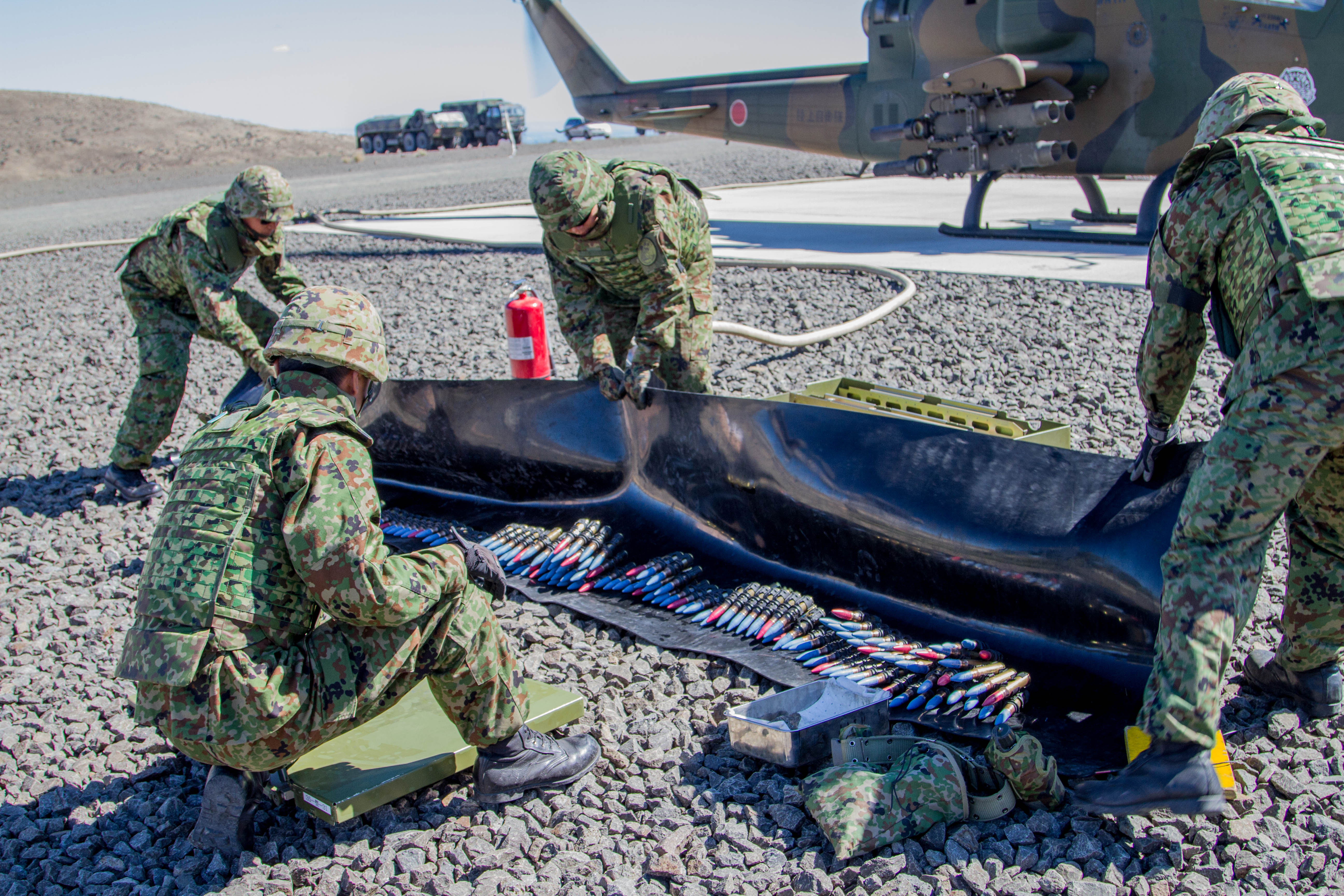 Japan Ground Self-Defense Force members prepare ammunition to be loaded into the 20mm cannon on a Cobra anti-tank helicopter at a forward aircraft refueling point at Yakima Training Center, Wash., Sept. 4. The exercise was part of Operation Rising Thunder, a combined operation between the Army and Japan designed to increase interoperability between the two nations. (U.S. Army photo by Sgt. Cody Quinn, 28th Public Affairs Detachment)